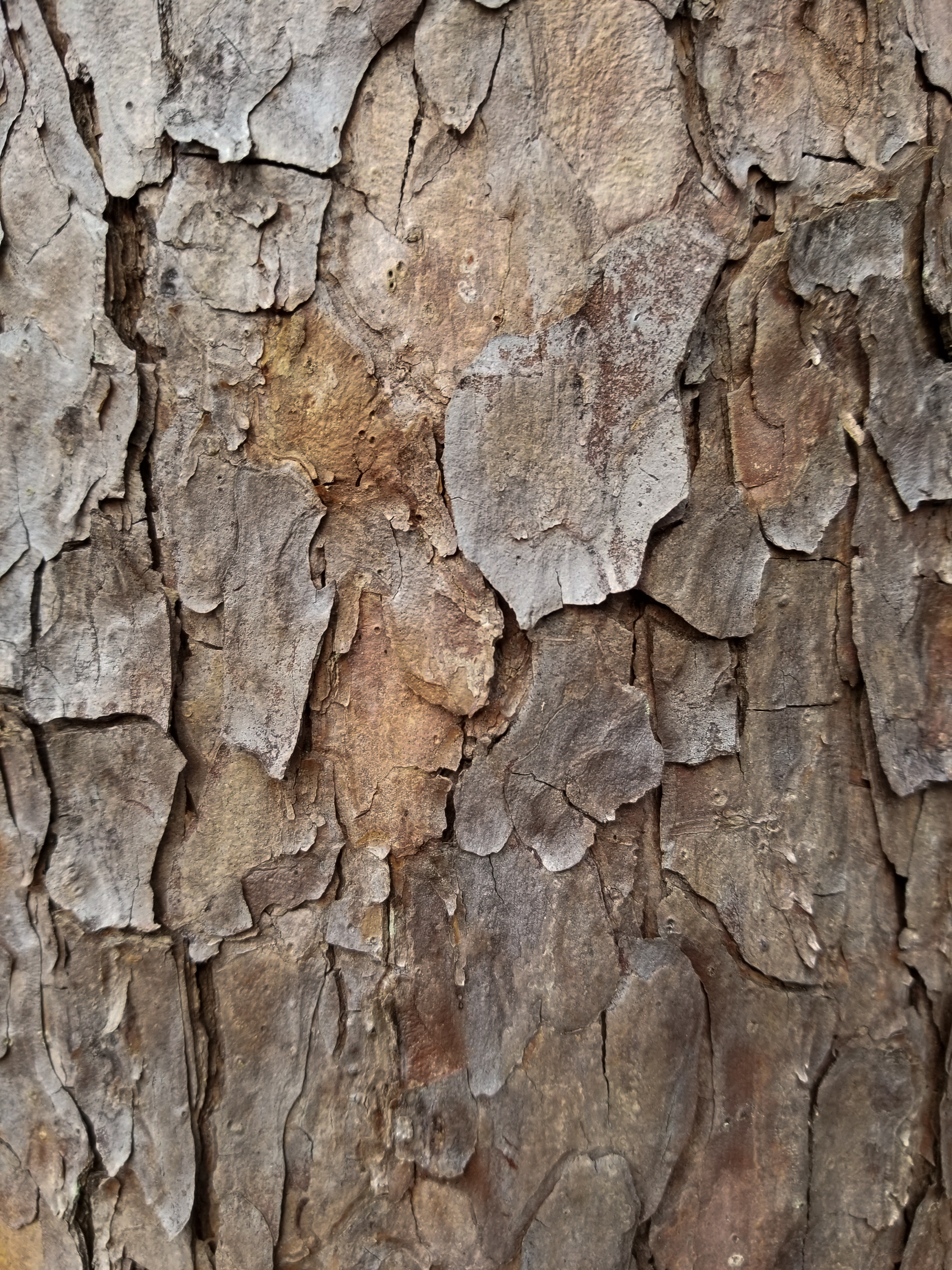 Detail of Shortleaf Pine Pinus echinata bark with resin pockets visible. Taken in Burlington County, NJ, USA.